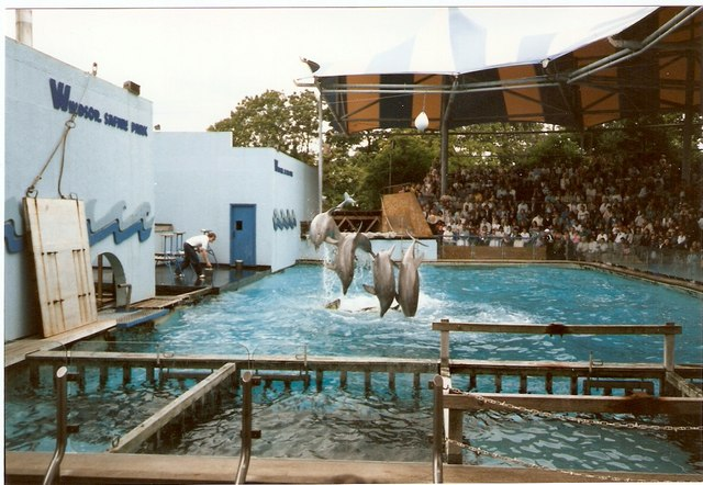 Windsor Safari Park The park entered receivership in January 1992 and closed shortly afterwards, the expensive new developments left largely unused. The park was purchased soon afterwards by the Lego Group, who intended to create a Legoland theme park similar to the existing Legoland in Billund, Denmark. The resulting Legoland Windsor opened in 1996.